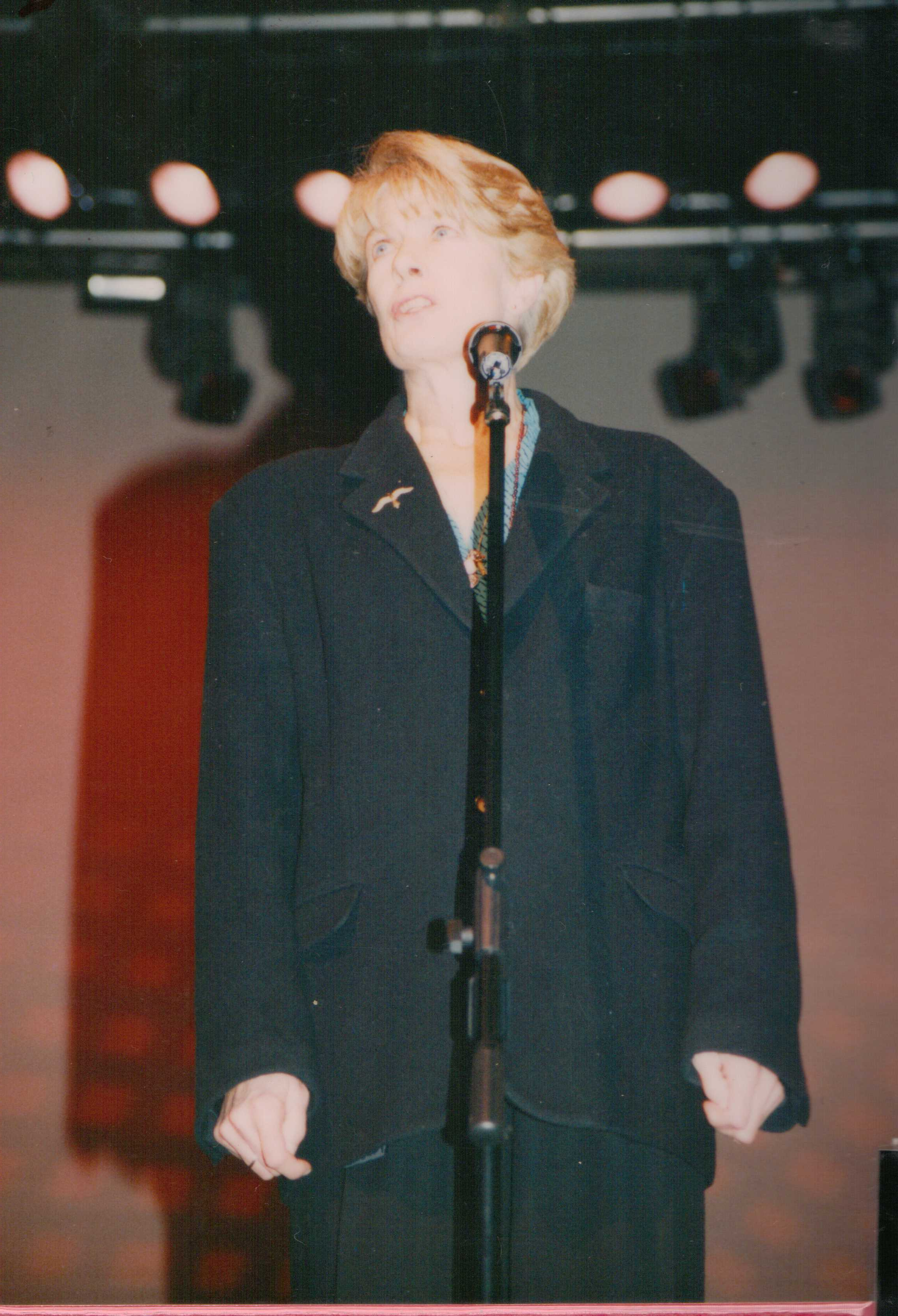 Vanessa Redgrave at the Asian Dub Foundation's Fundraiser event at the Hackney Empire